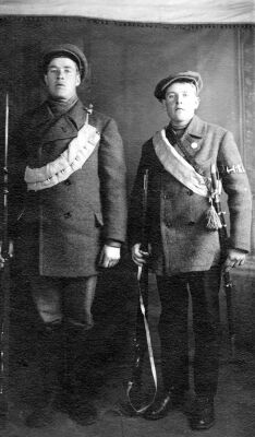 Two red soldiers from Helsinki